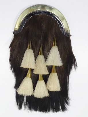 Full-dress sporran, belongs to the Argyll and Sutherland Highlanders Regimental Museum